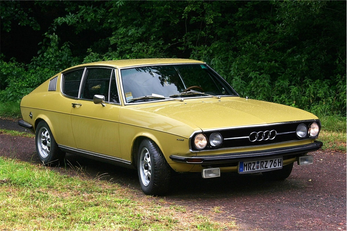 1976 Audi 100 Coupé (C1)